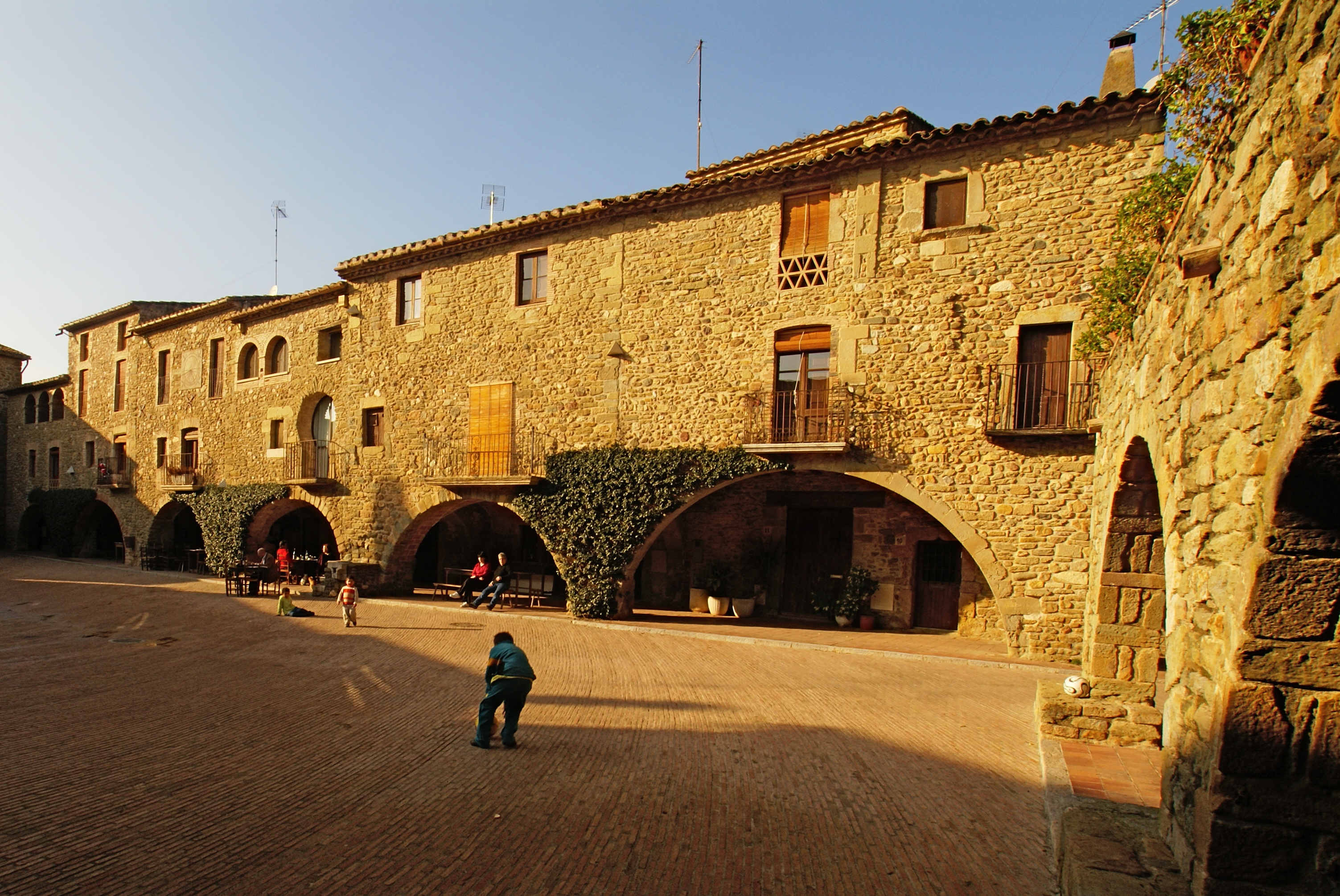 Monells (Catalonia): Plaça Jaume I square